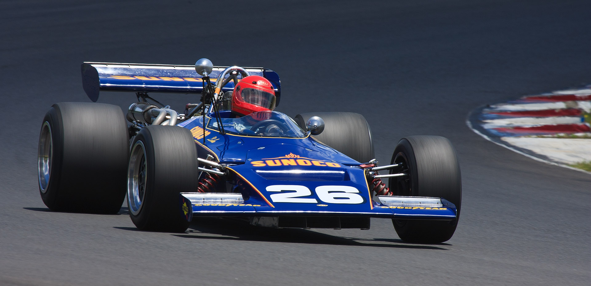 Tasman Revival 2010. Eastern Creek, Australia Bob Harborow, 1970 Lola T192 20101128-IMG_0404